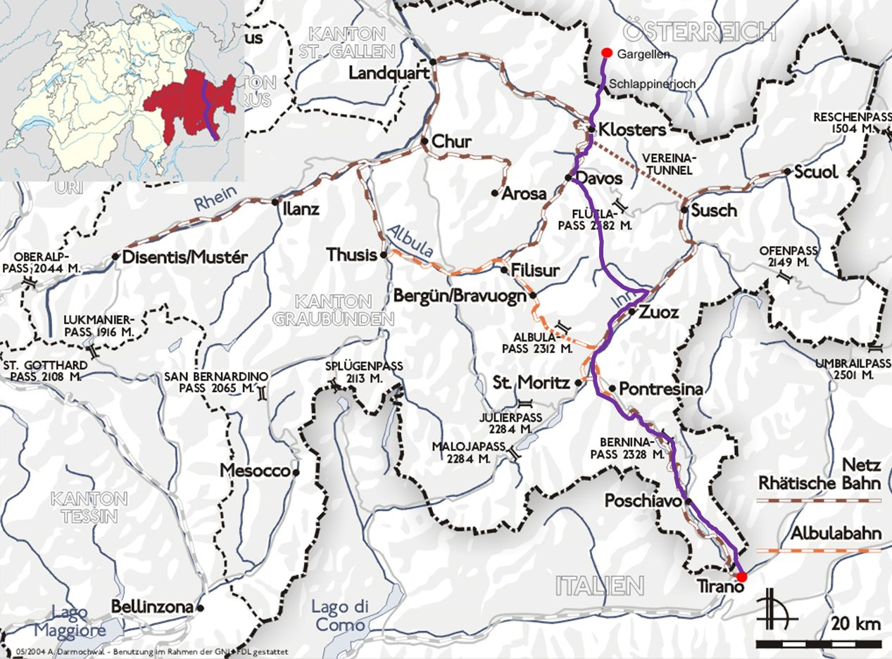 Presentation of the route of the Via Valtellina from Gargellen (Austria to Graubünden (Switzerland) to Tirano (Italy)